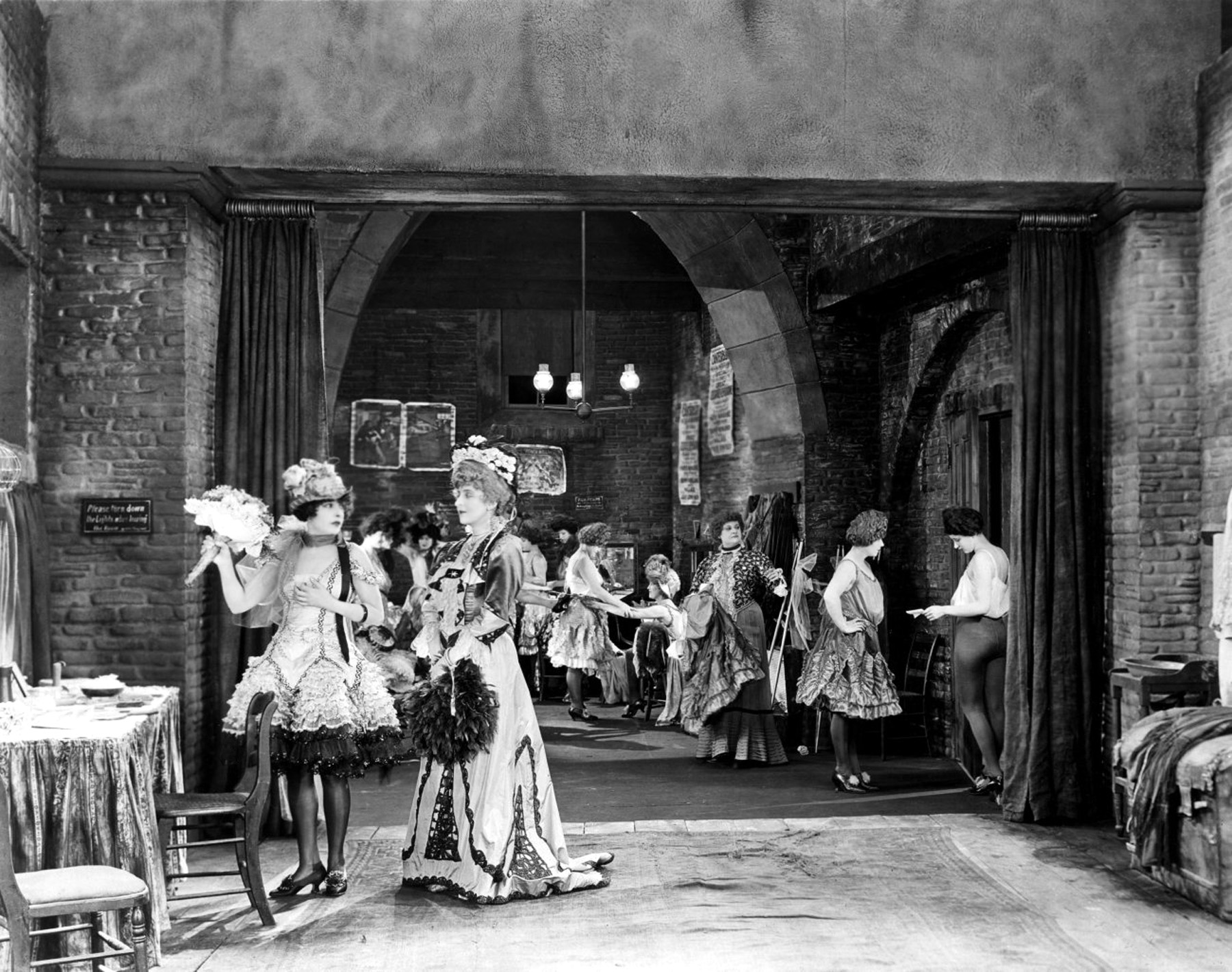 Norma Talmadge in The Lady (Frank Borzage 1925).